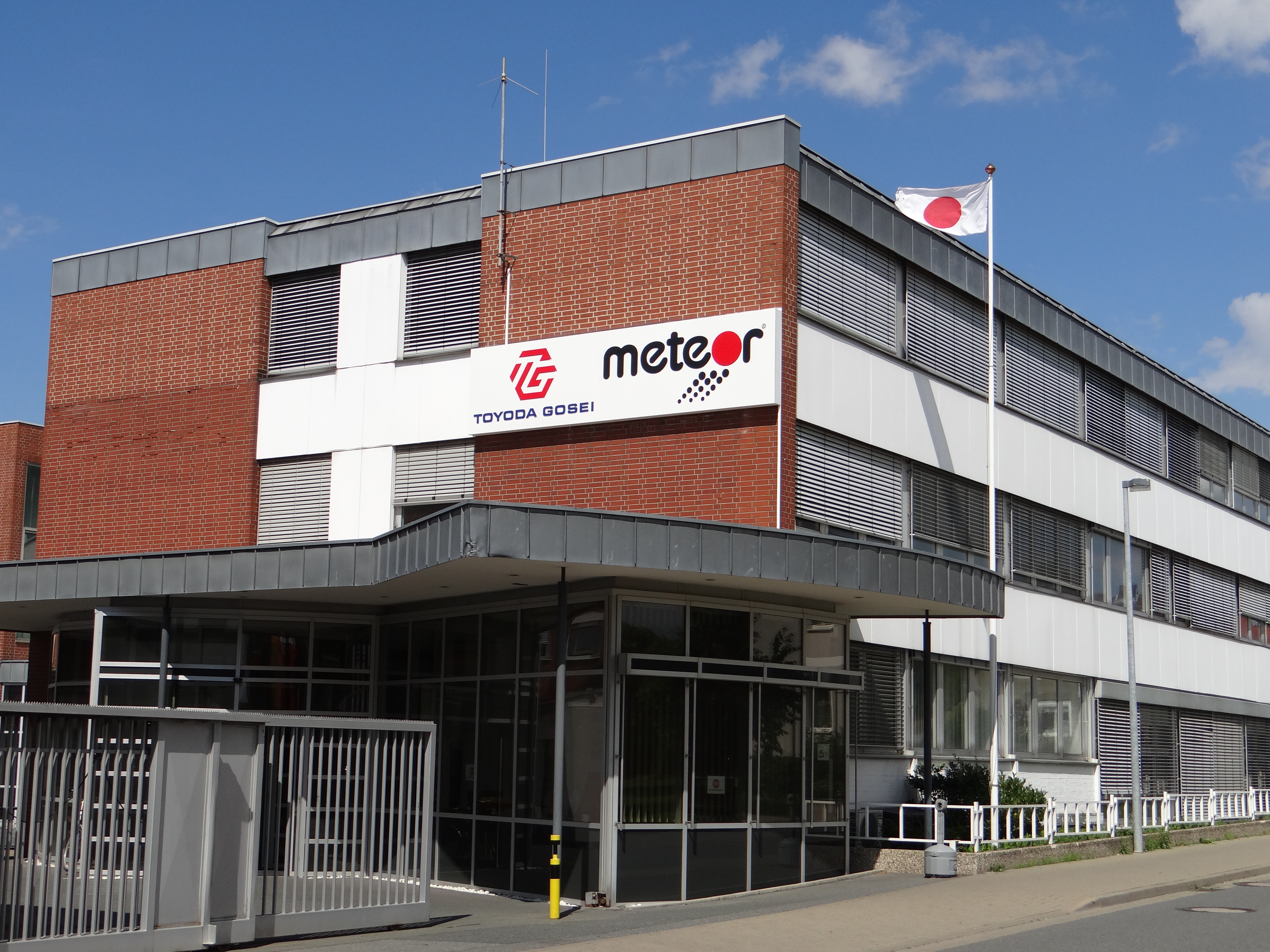 Entrance of Toyoda Gosei Meteor in Bockenem, Germany.